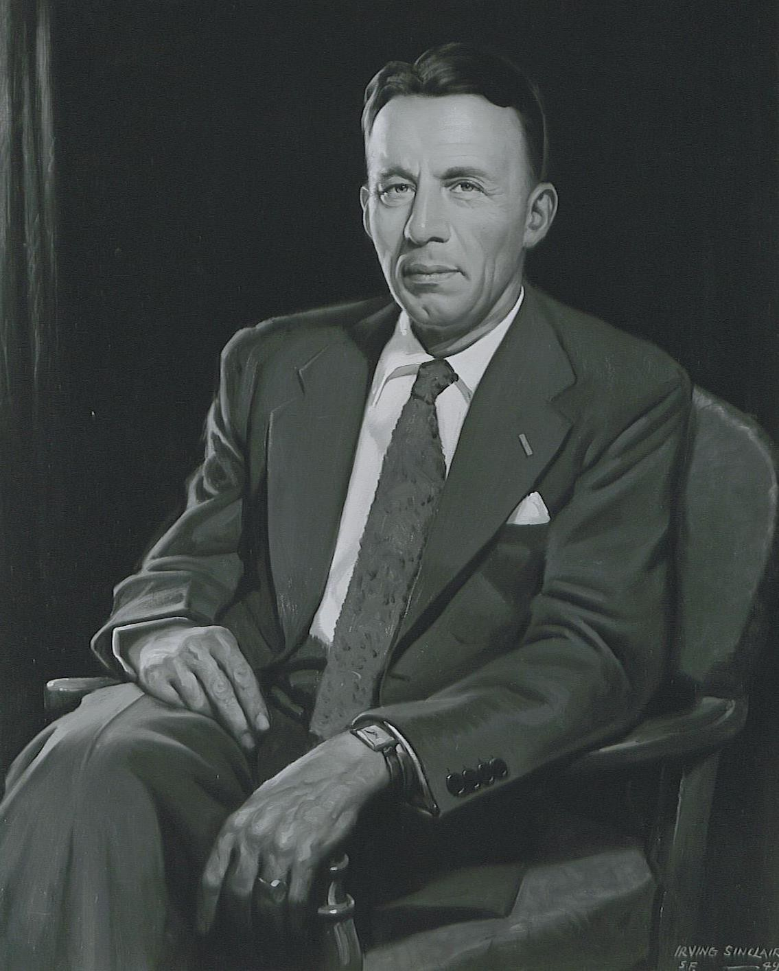 Photograph of official Senate portrait. Portrait was painted by Irving Sinclair in 1949. Photograph used with permission of Cain family